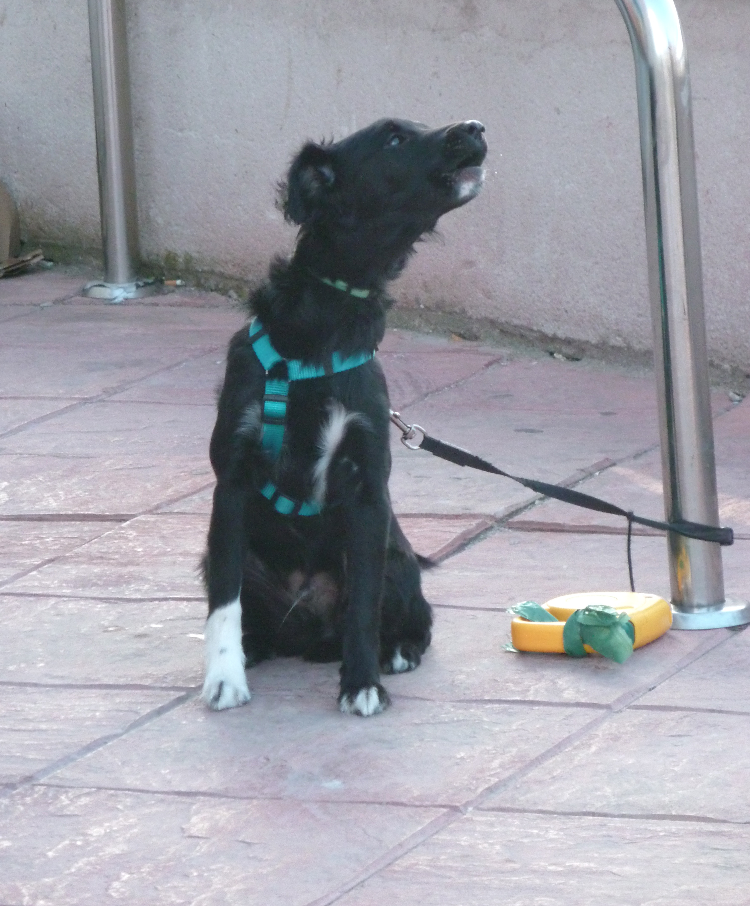 A dog howling in Madrid (Spain).